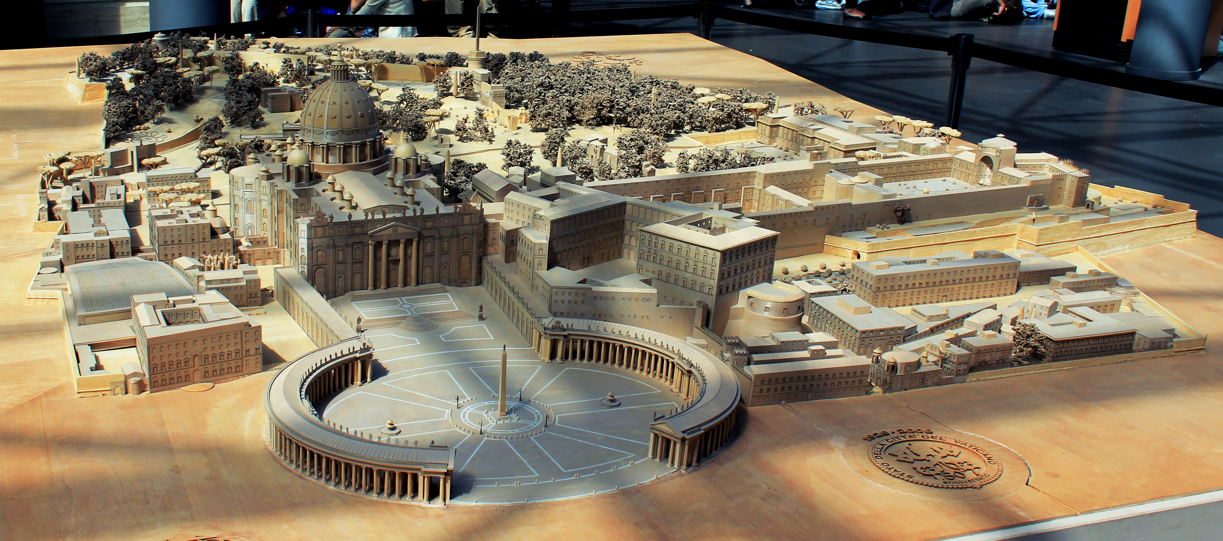 Model of St. Peter's Basilica and Vatican City in Vatican Museums , Rome